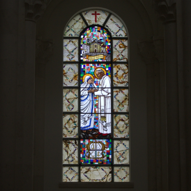 Interior